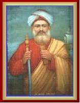 A painting believed to be Thomas of Cana